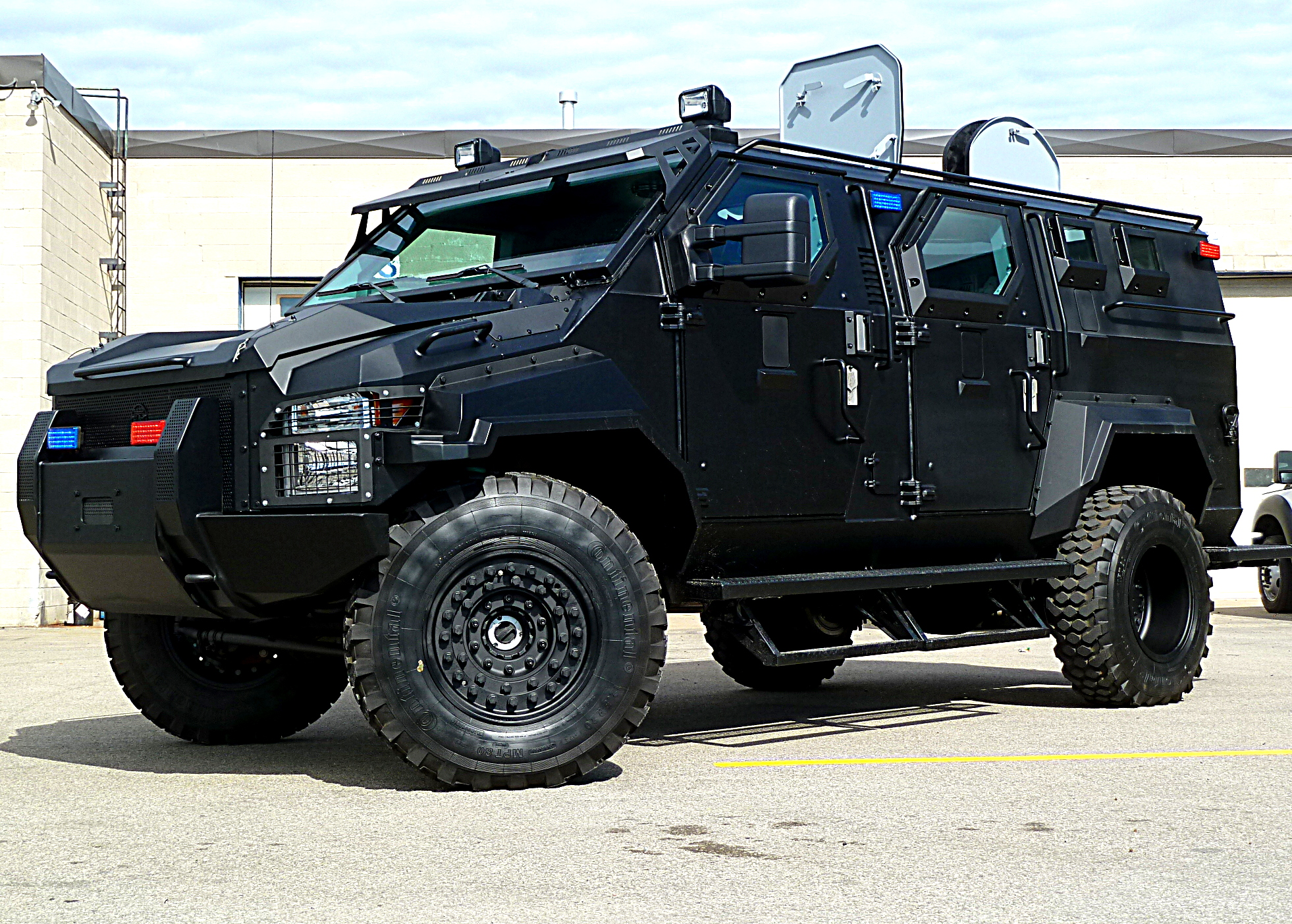 Canadian made Armored Vehicle built by Streit Manufacturing Inc. in Innisfil, Ontario, Canada